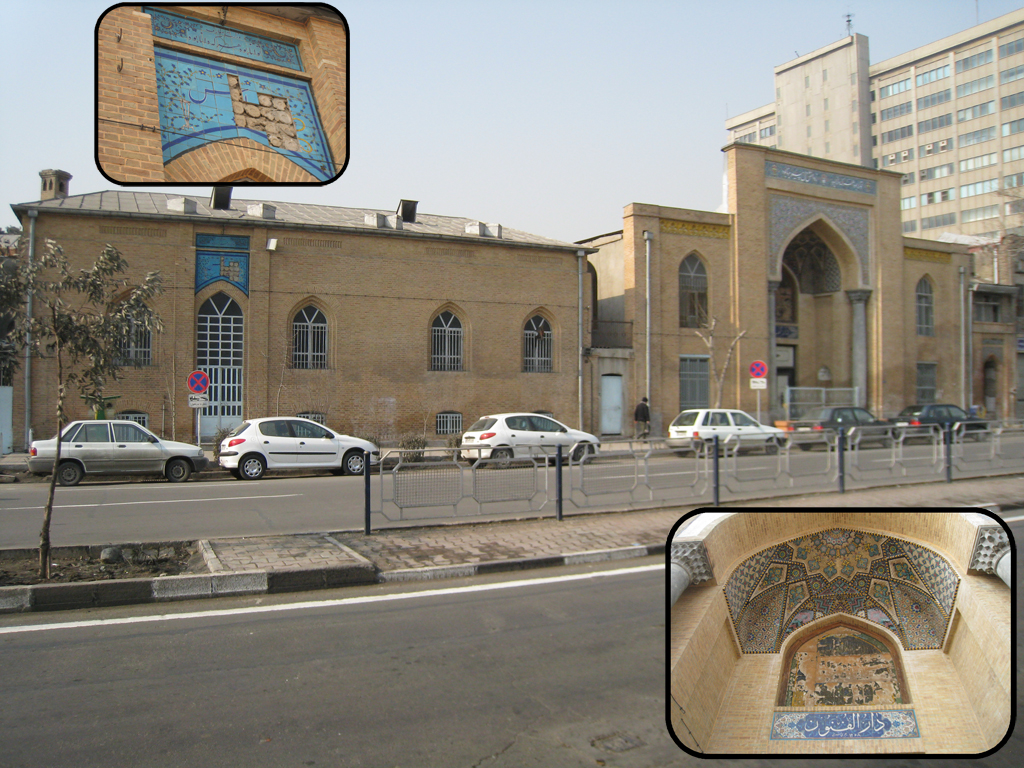 Dar al-Funun established in 1851, was the first modern institution of higher learning in Persia.